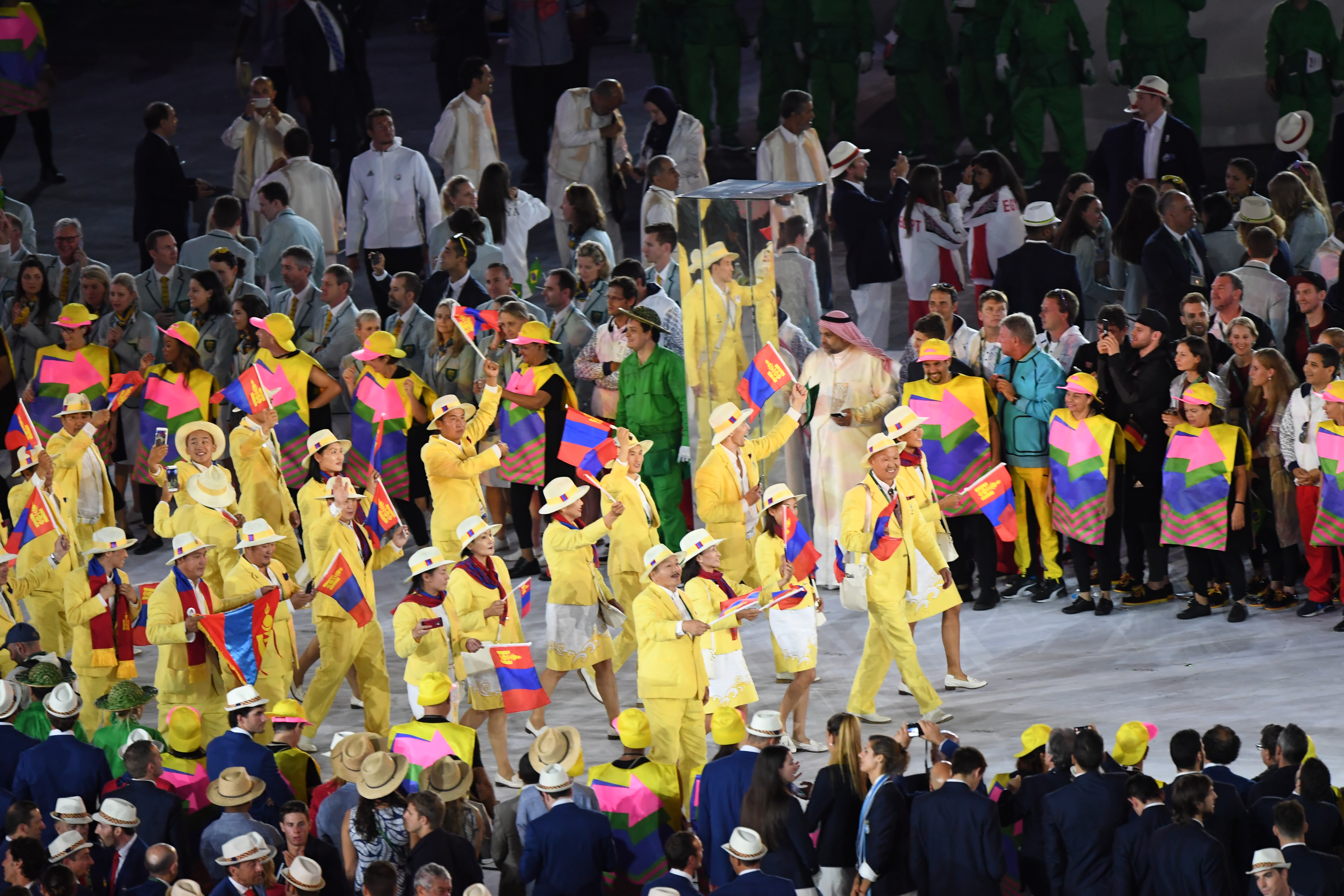 A scene from the Rio 2016 Olympic Games Opening Ceremony on Aug. 5 at Maracana Stadium in Rio de Janeiro, Brazil. U.S. Army photo by Tim Hipps, IMCOM Public Affairs